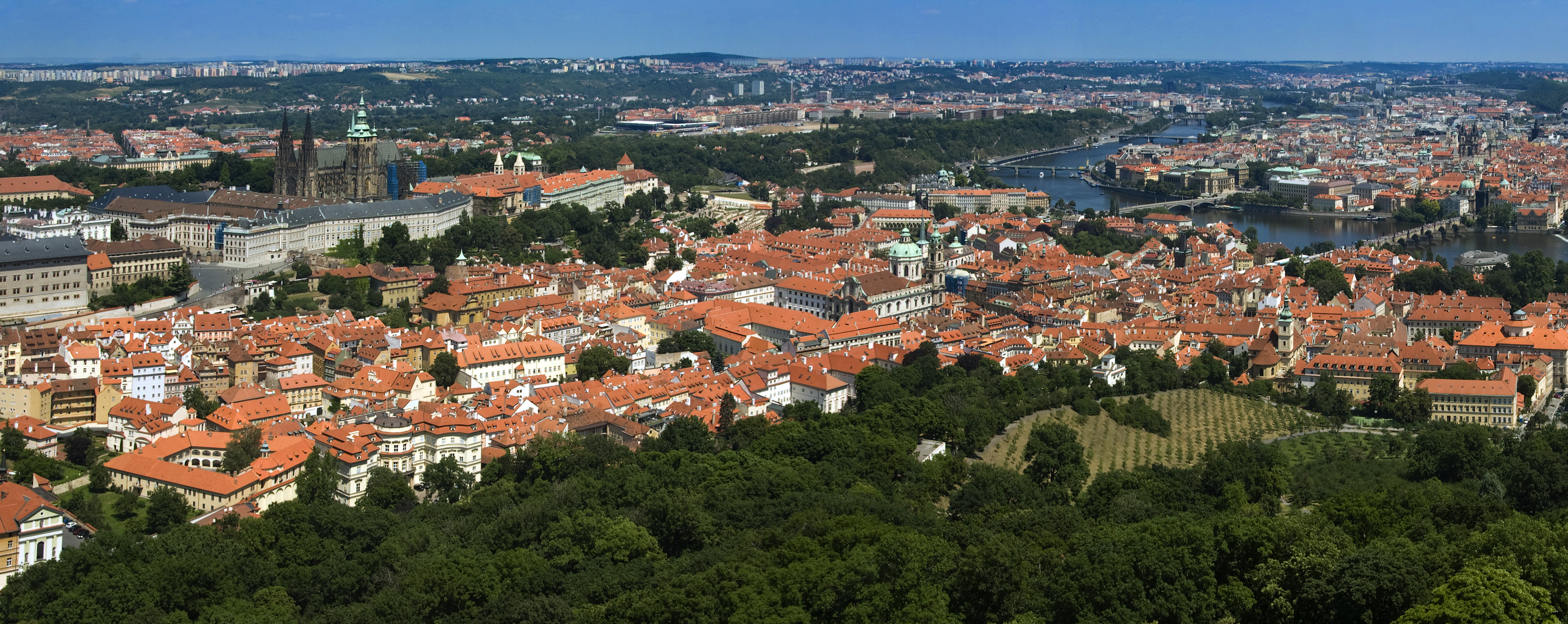 Malá Strana in Prague, Czech Republic, seen from the Petřín hill.